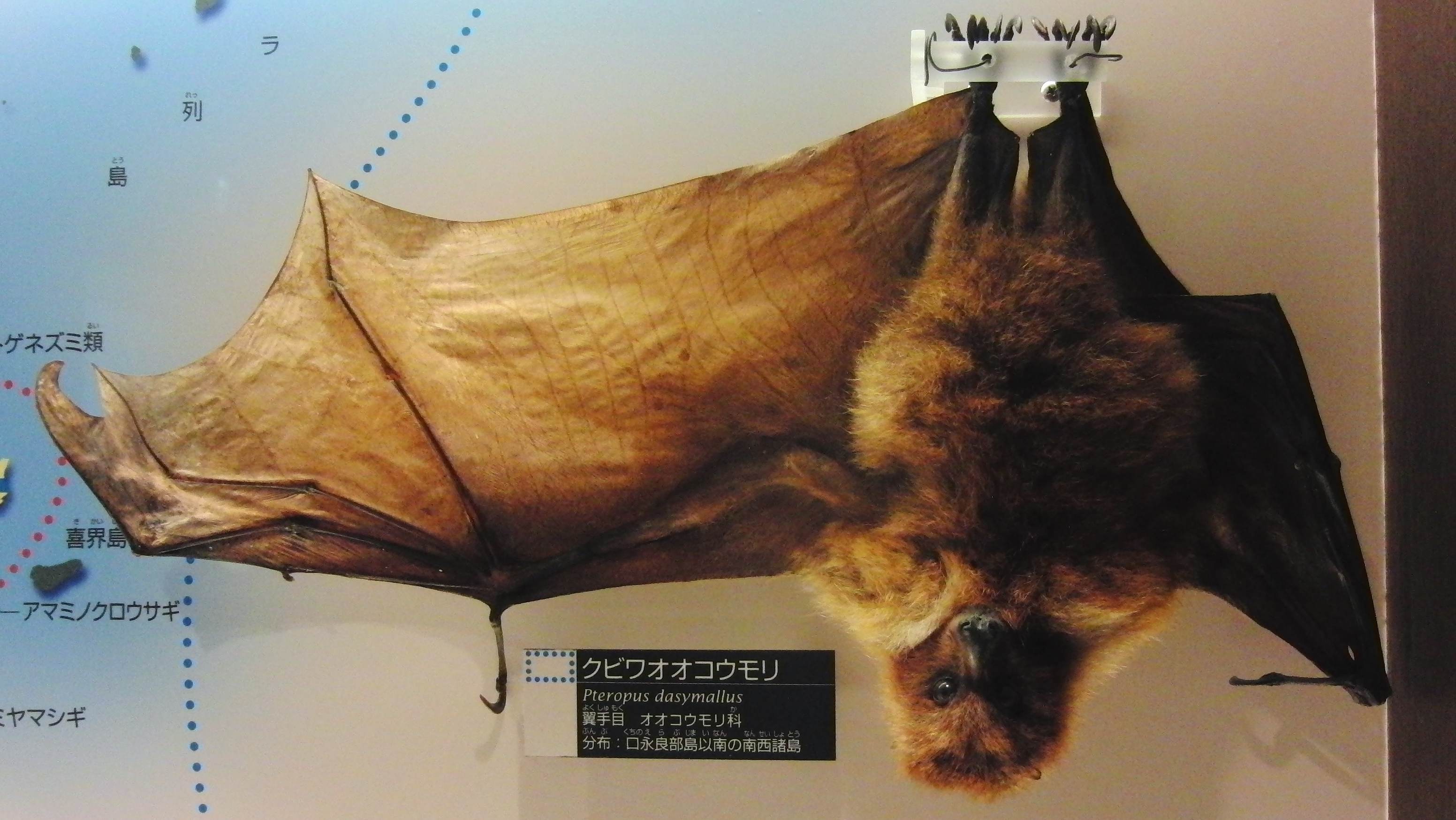 Stuffed specimen of Ryukyu flying fox (Pteropus dasymallus). Exhibit in the National Museum of Nature and Science, Tokyo, Japan.